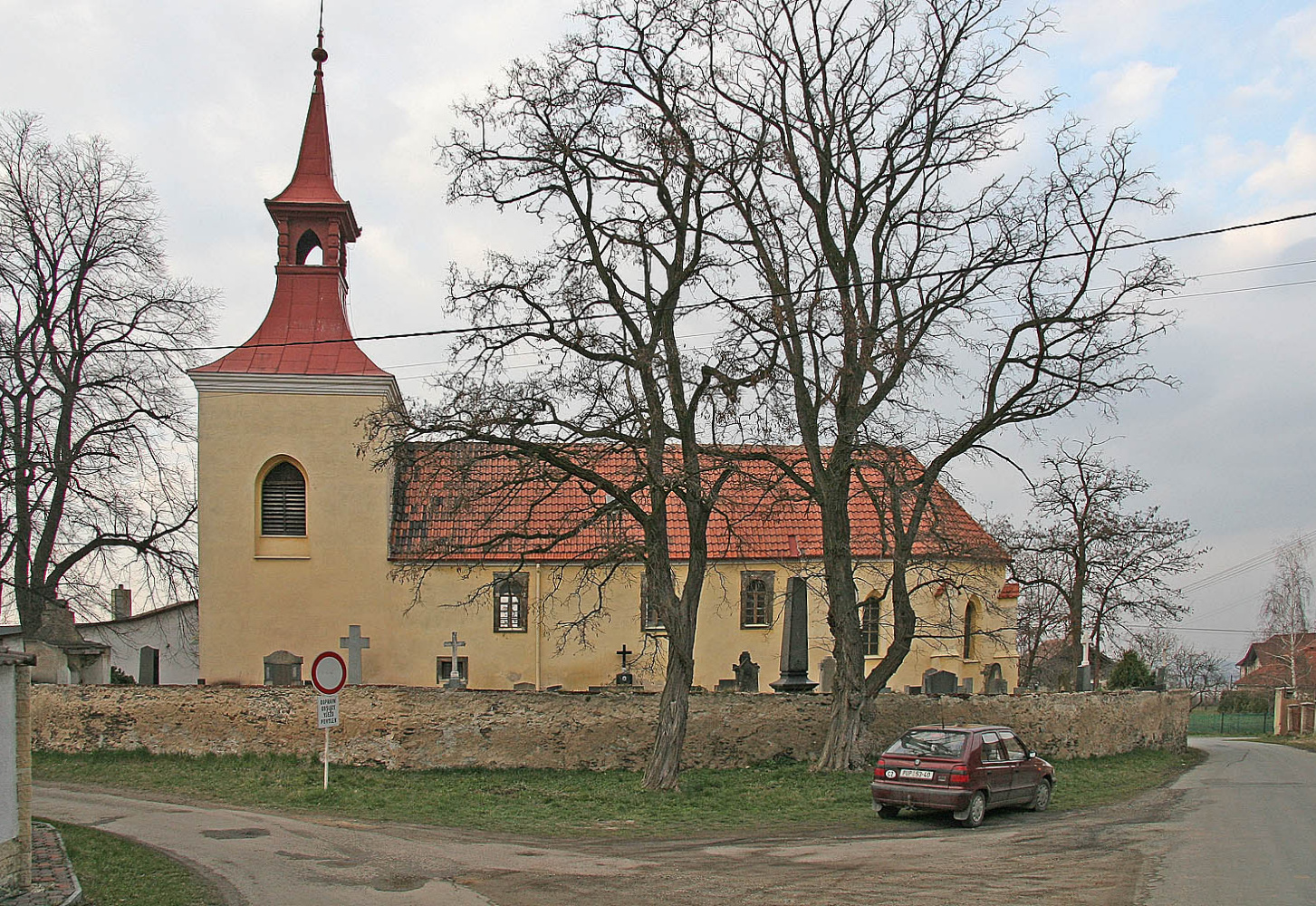 SS Peter and Paul church in Přišimasy, Kolín District, Czech Republic